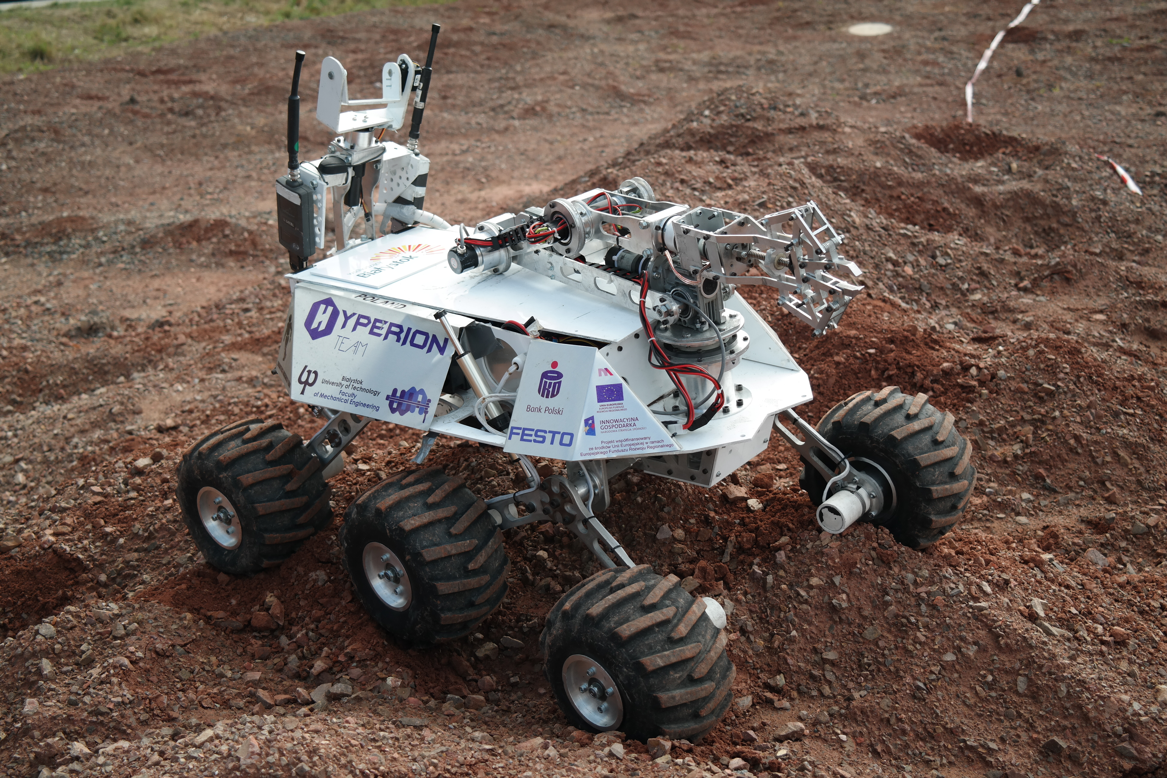 European Rover Challenge 2015, 5-6 September, Podzamcze near Chęciny near Kielce, Poland. Showcases on the track on the 6th of September. Hyperion 2 Rover, winner of the University Rover Challenge 2014 (category), presented to the public.